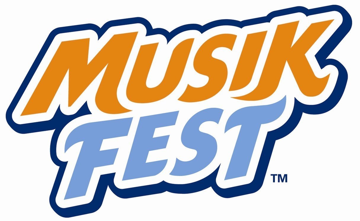 The No. 1 thing we hear from our patrons is they love the music and fun that make Musikfest so special. The logo and poster are designed to highlight that energy and excitement, while also reflecting on the evolution the event has undergone over the past 29 years